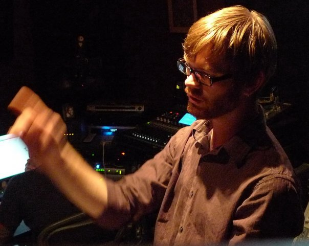 Jared Emerson-Johnson conducting a music recording session at AudioSFX in Marin County, CA.